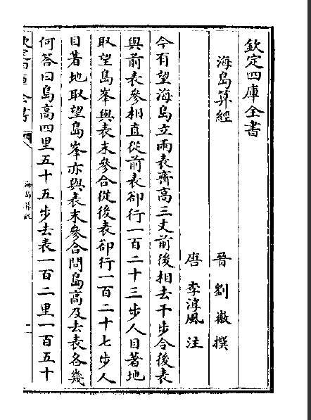 First page of The Sea Island Mathematical Manual in Siku Quanshu